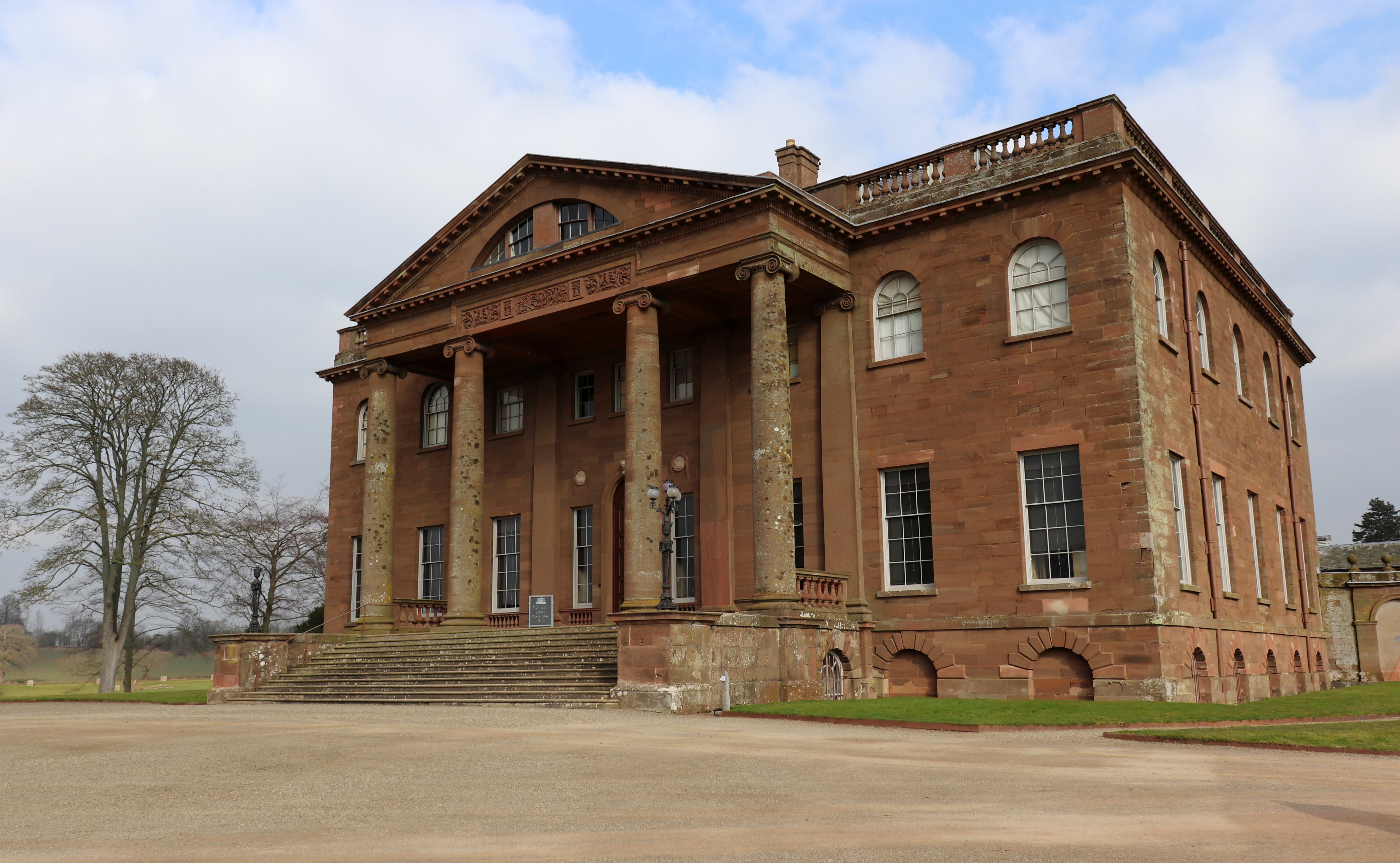 Berrington Hall, Leominster, Herefordshire